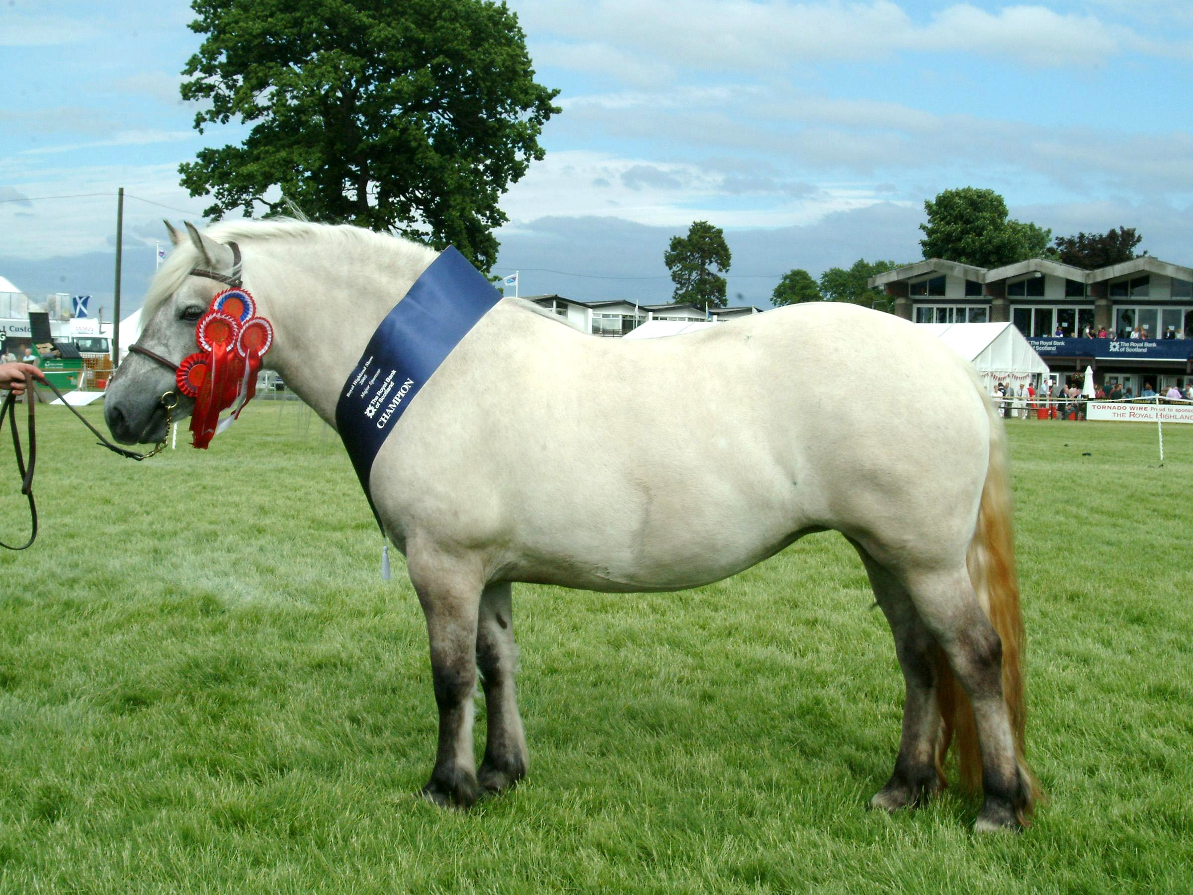 Grace of Carlung, Highland Pony champion at the Royal Highland Show 2005. Cream dun[1] mare as called by the owner, has dark eyes, dark skin and clearly black pigment in the legs. Is most probably a buckskin-based dun, combining one copy of cream dilution gene along with the dominant dun gene. Synonyms in English include buckskin dun, dunskin, buttermilk dun.